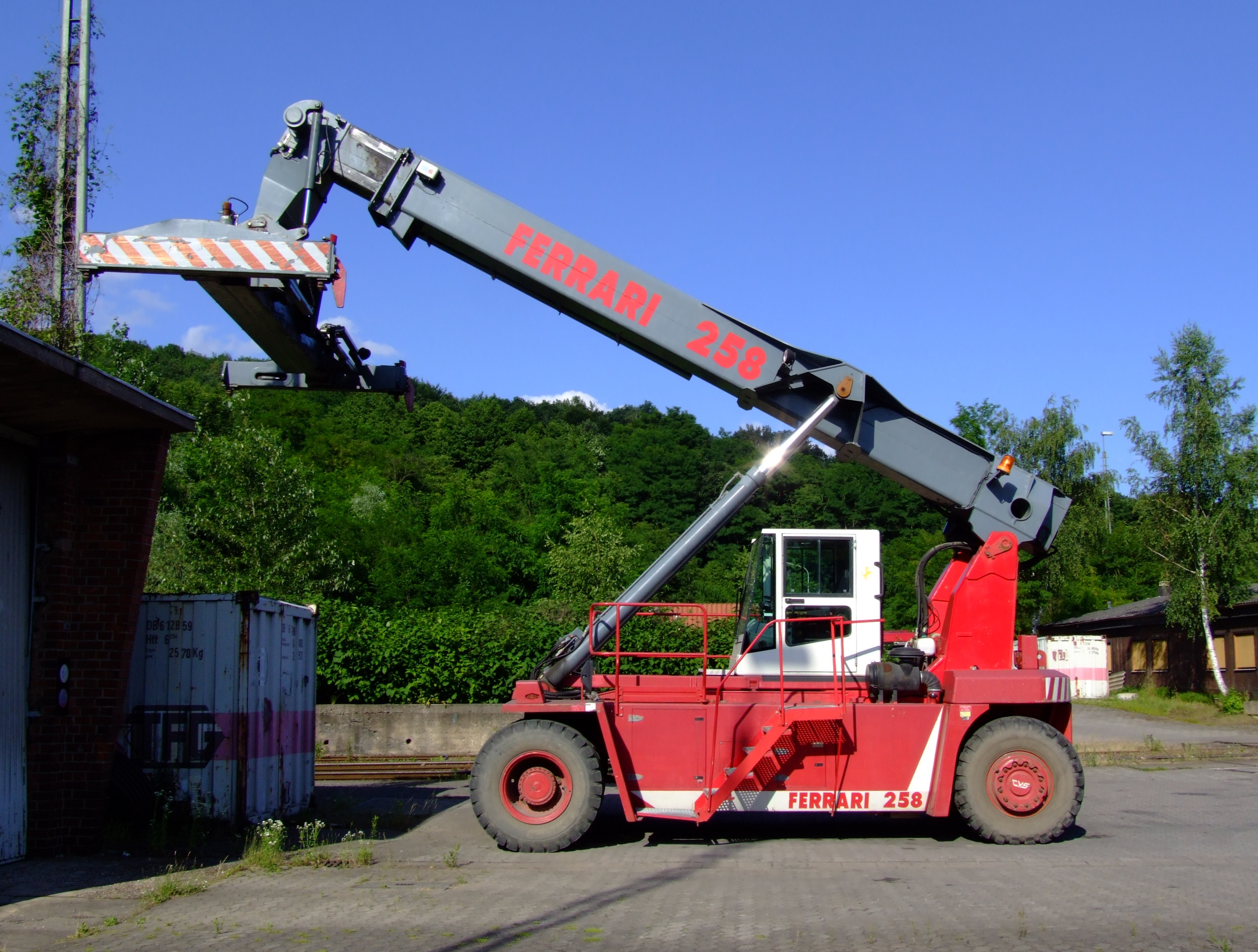 Ferrari 258 Reach stacker container mover.